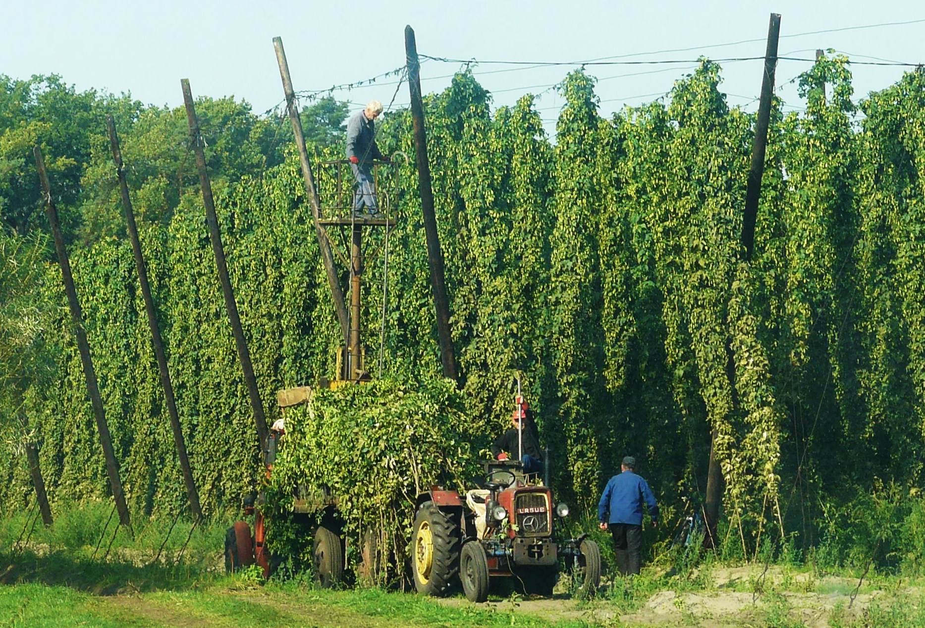 The hop garden in Poland